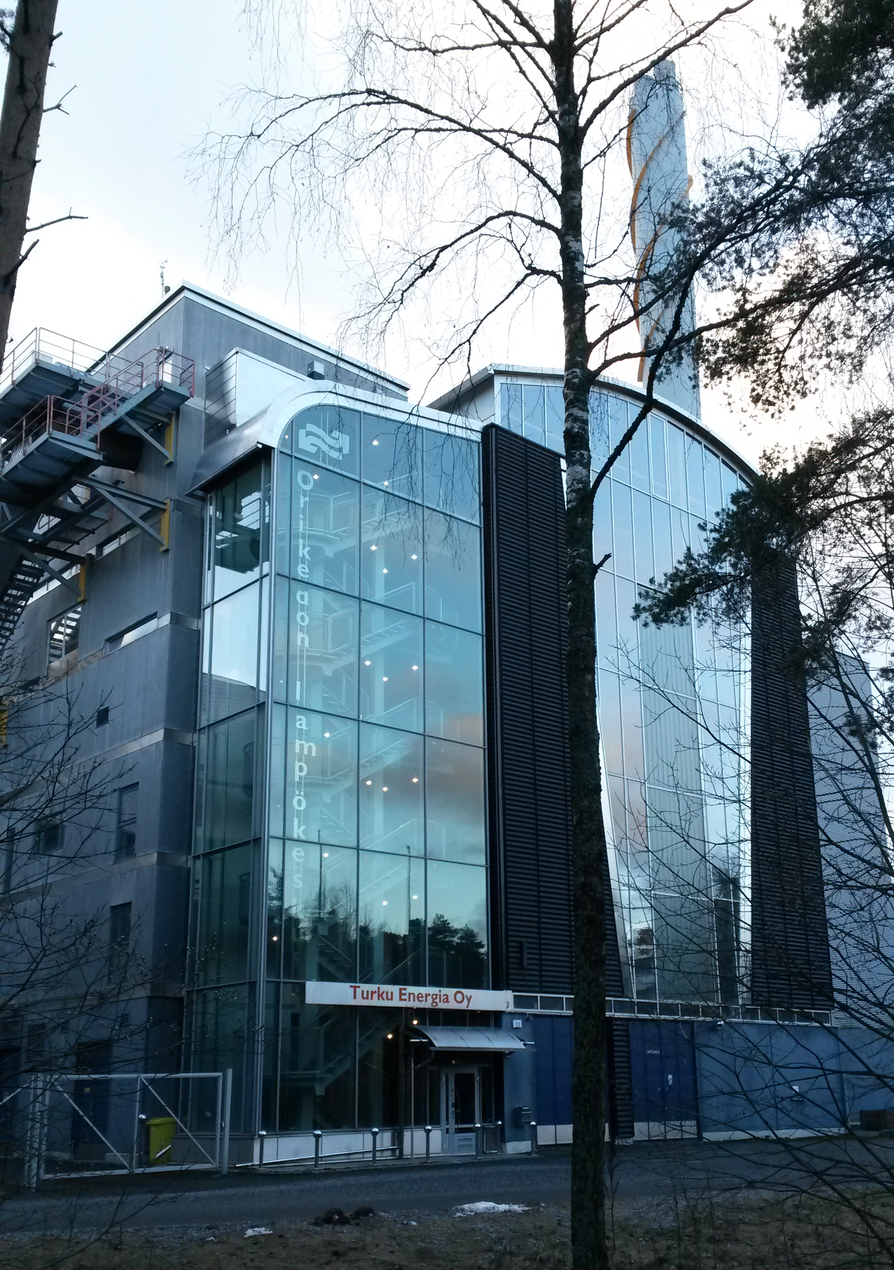 Waste Incinerator in Turku